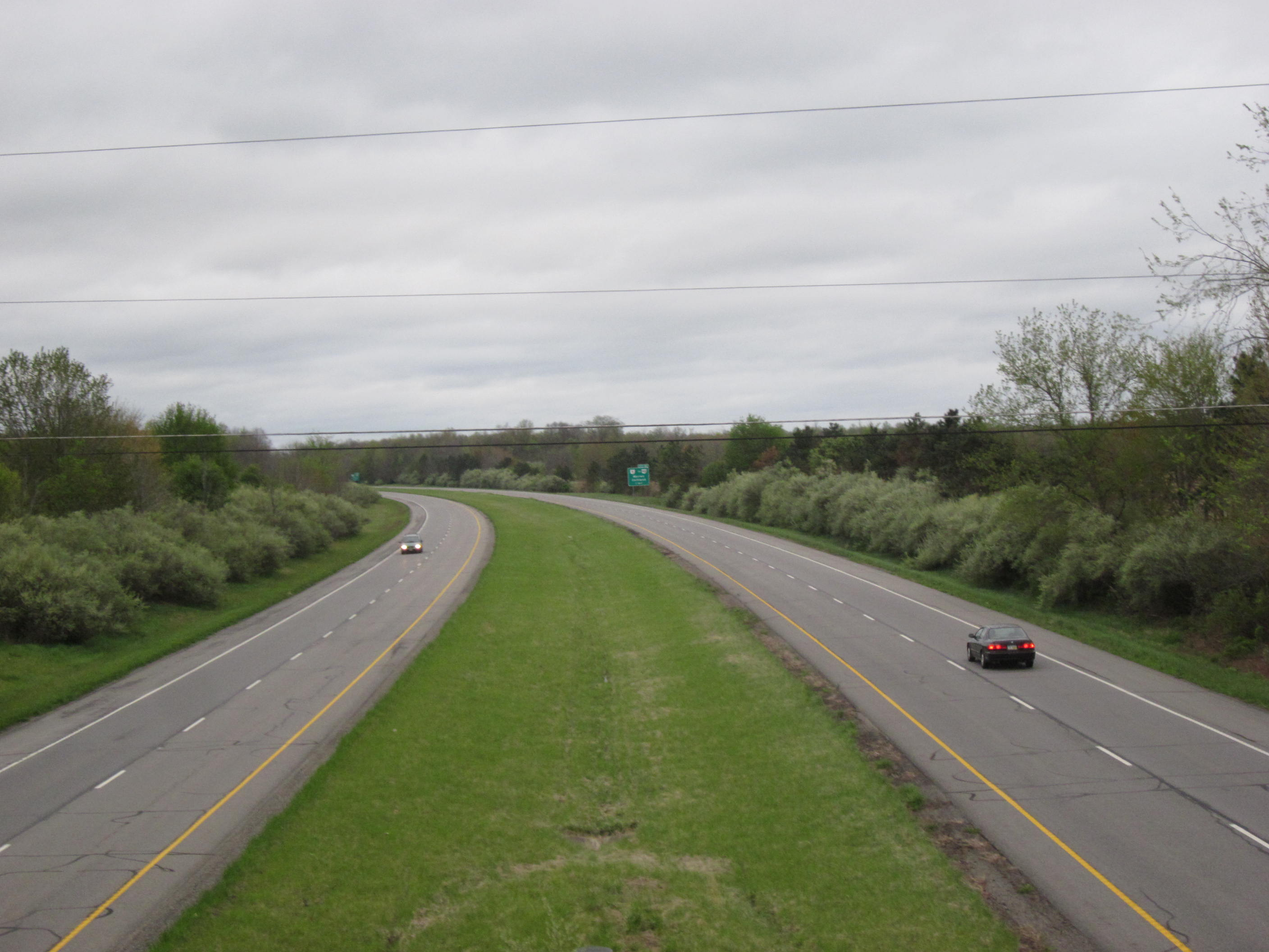 Route 11 Near Exit 61